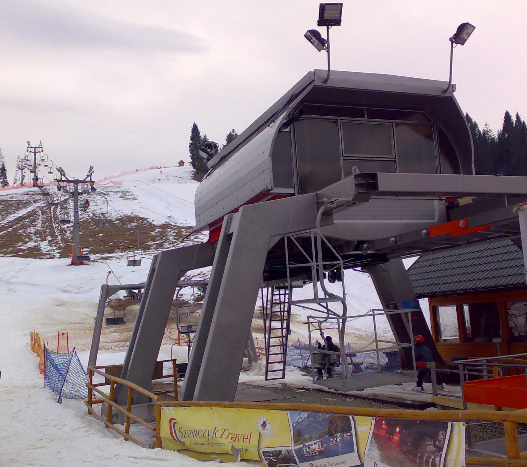 Jaworki chairlift lower terminal